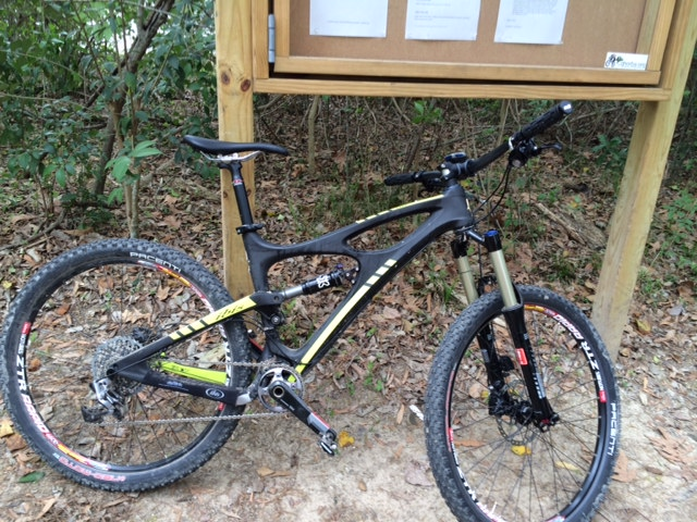 Ibis Mojo HDR 650b on an off-road trail.